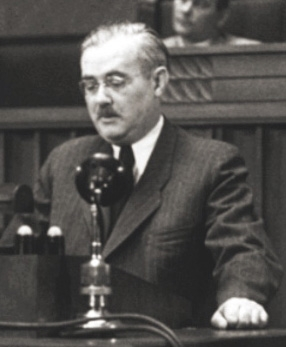 Hilary Minc (1905 - 1974) - an economist and member of Communist Party of Poland. He served as Minister of Industry, Minister of Industry and Commerce, and Vice-Premier for Economic Affairs in the communist government established after World War II. His time in the Politburo lasted between 1945 - 1956.